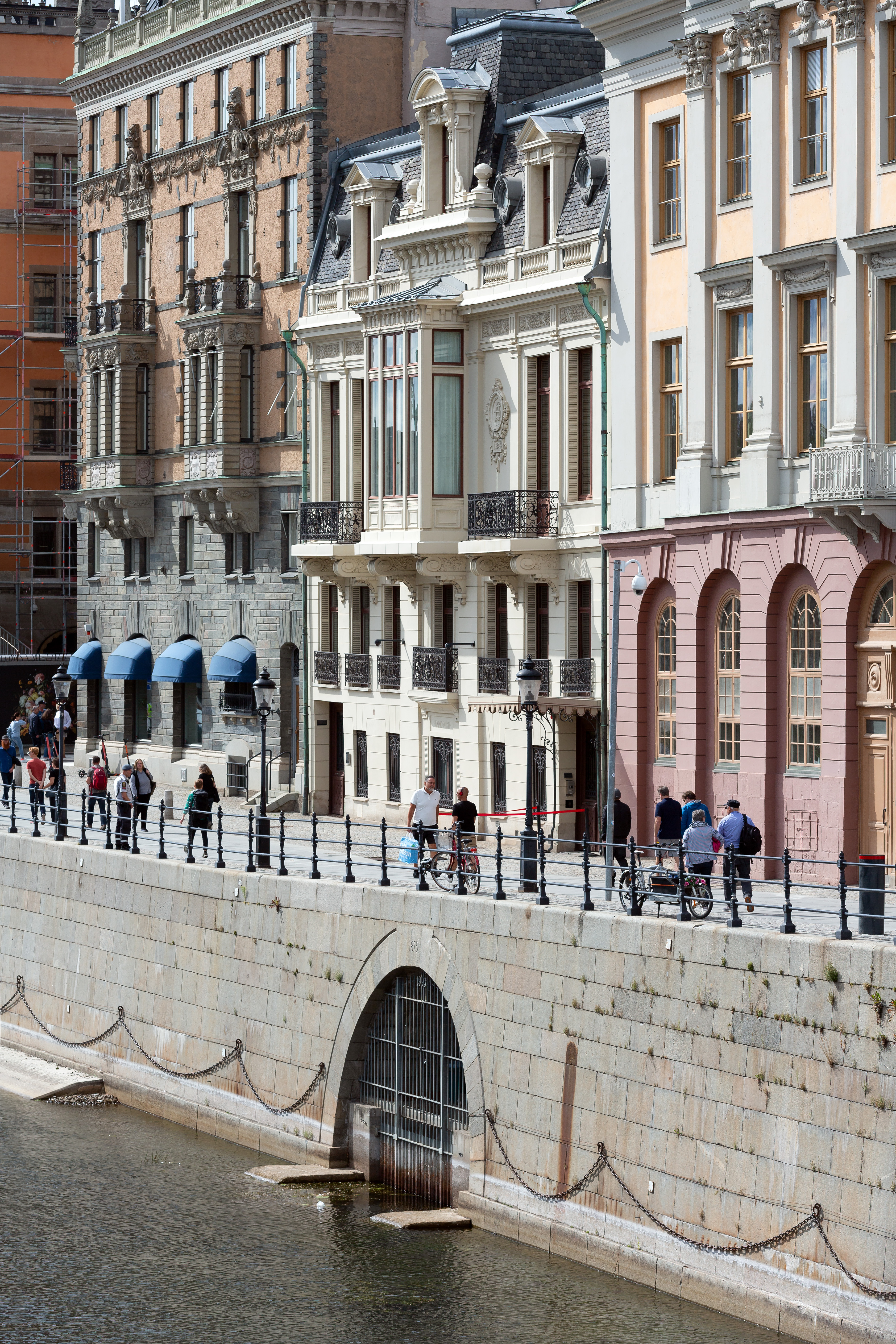 Sager House, Strömgatan, Stockholm, Sweden.